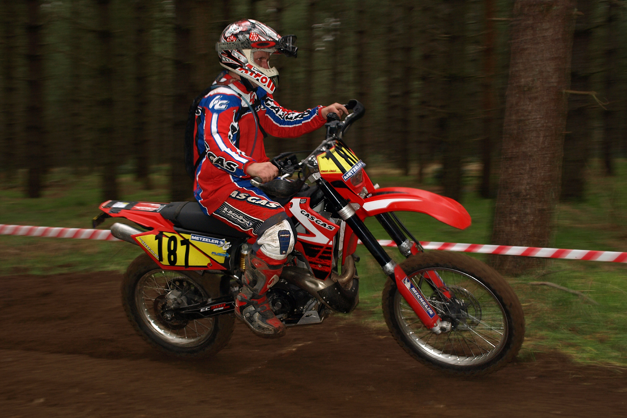 187 Shaun Benson 300 Gas Gas. Muntjac Enduro (British Enduro Championship , Muntjac, Thetford Forest, Norfolk, 2009)